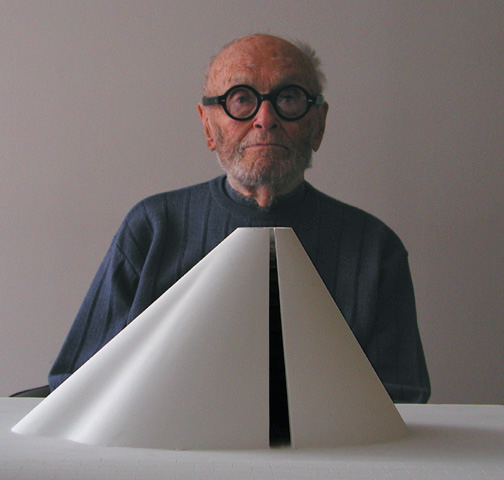 The famous American architect Philip Johnson at his office in Seagram Building, Manhattan in 2002.